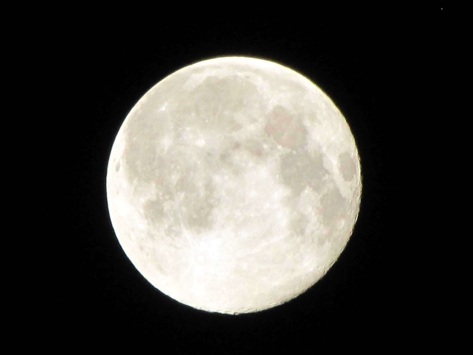 Lunar perigee on July 13, 2014, when event coincided with full-phase. Image taken in northern hemisphere, Mexico City.